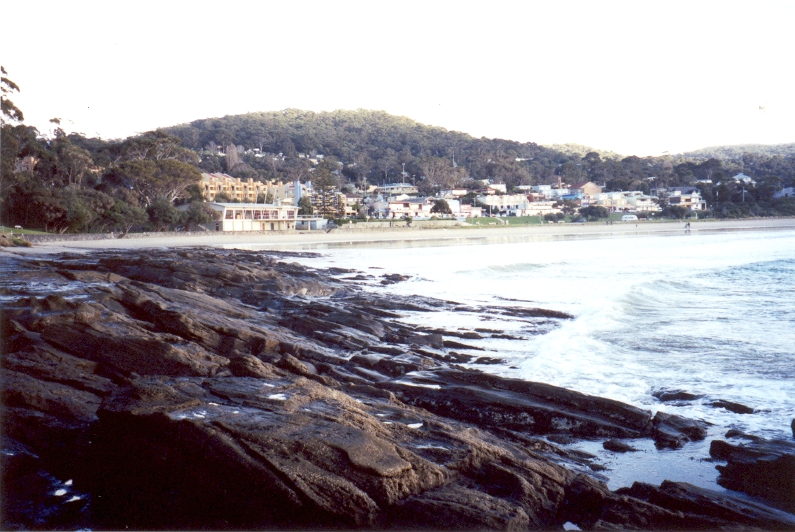 Lorne, Victoria, Australiaen viewed from the west beach of Louttit Bay on the Bass Straiten.